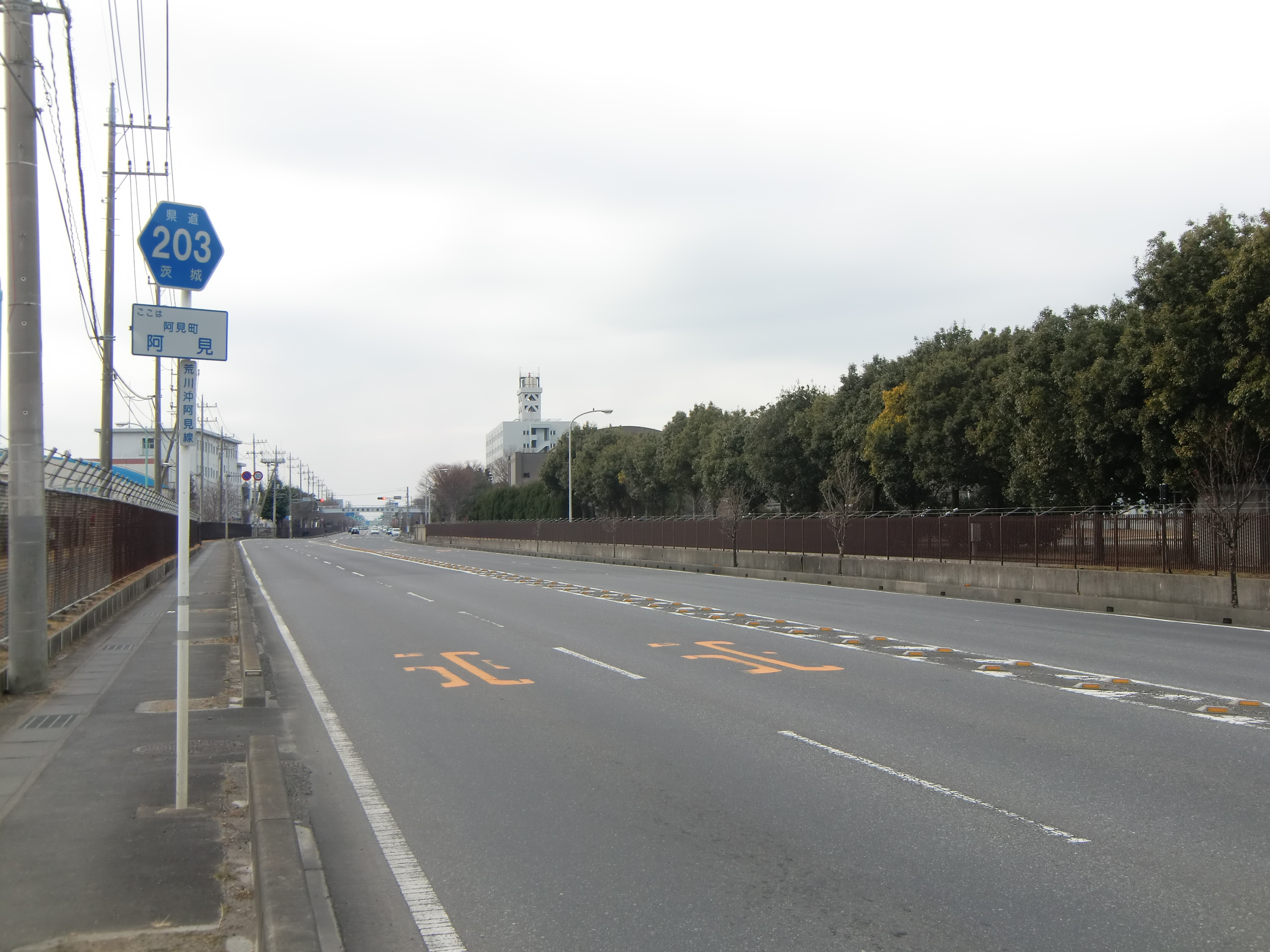 Ibaraki prefectural road 203(Arakawaoki-Ami line) in Ami, Ami town, Inashiki county, Ibaraki pref., Japan. Japan Ground Self-Defense Forces Camp Kasumigaura is located along this street.